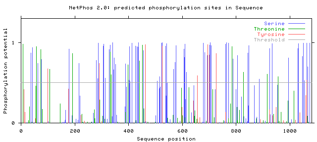 This diagram shows the predicted phosphorylated sites found within the FAM214A protein. Obtained from ExPASy's NetPhos program.